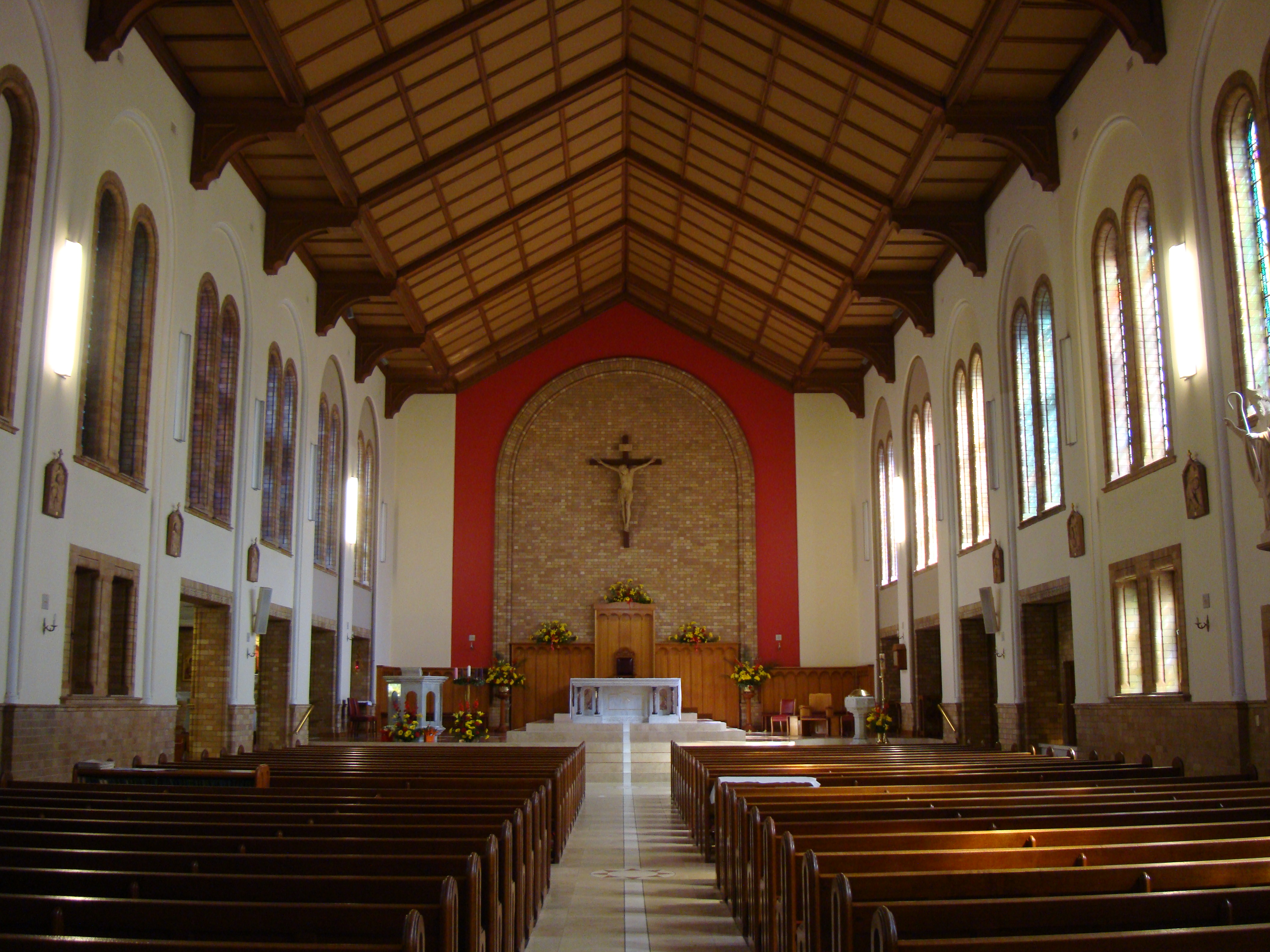 Photograph of the interior of St Christopher's Cathedral, ACT, Australia